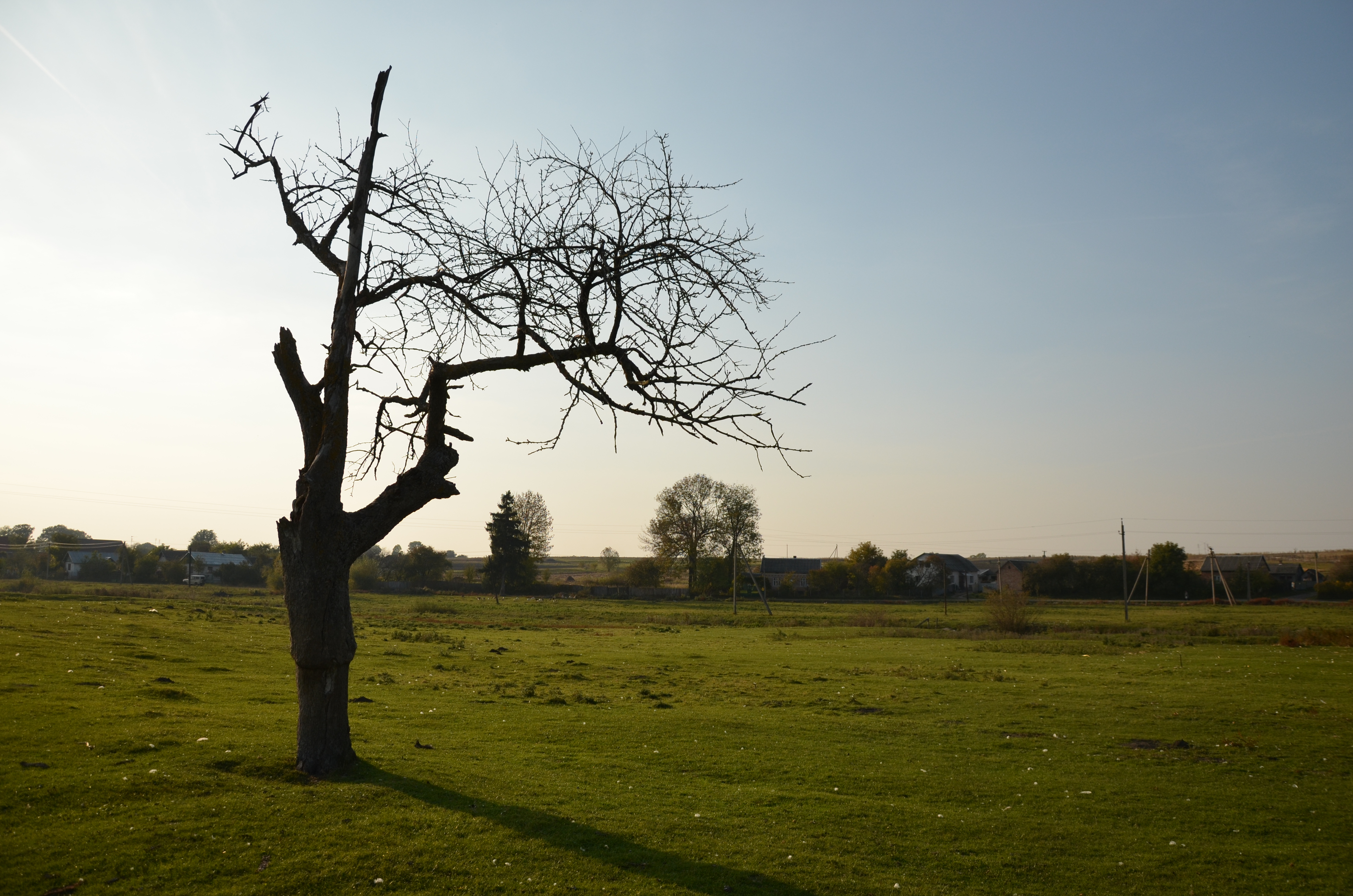 Vyzhniany, Zolochiv Raion.